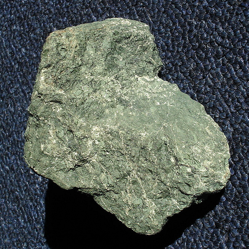 Serpentinite from the Golden Gate National Recreational Area, San Francisco, California, USA. This hand sample is 10 to 14 cm wide